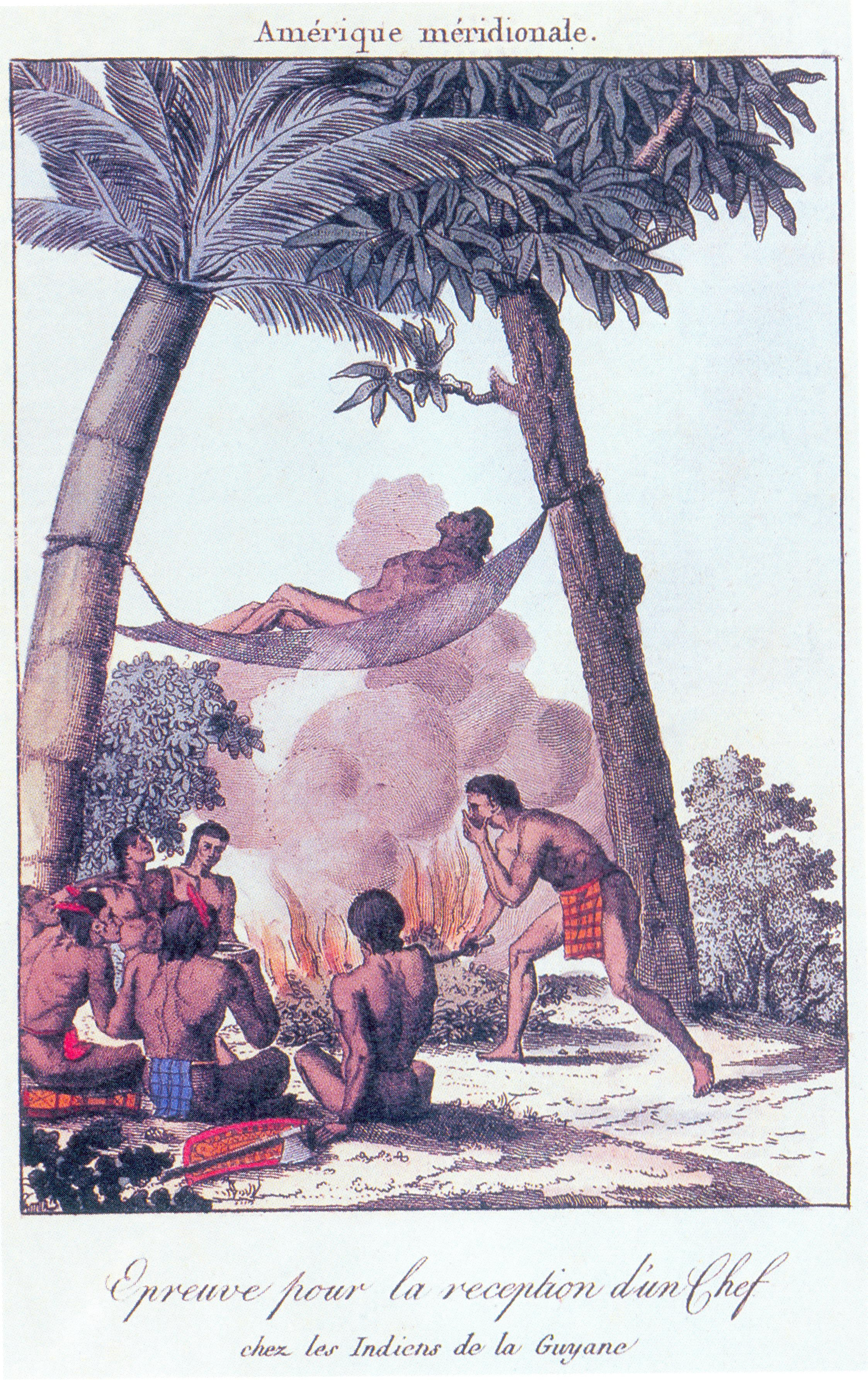 One of the tests to become a chief of an Amazonian tribe, probably Kali'na.